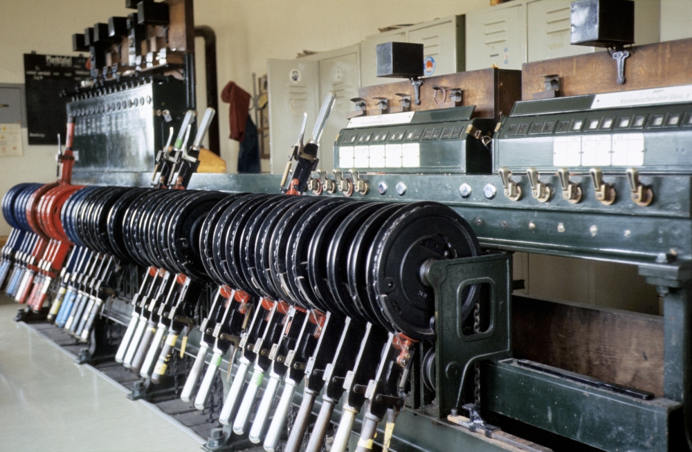 Mechanical interlocking machine of type "5007" in signal box 3 in Linz/Austria, western switching yard